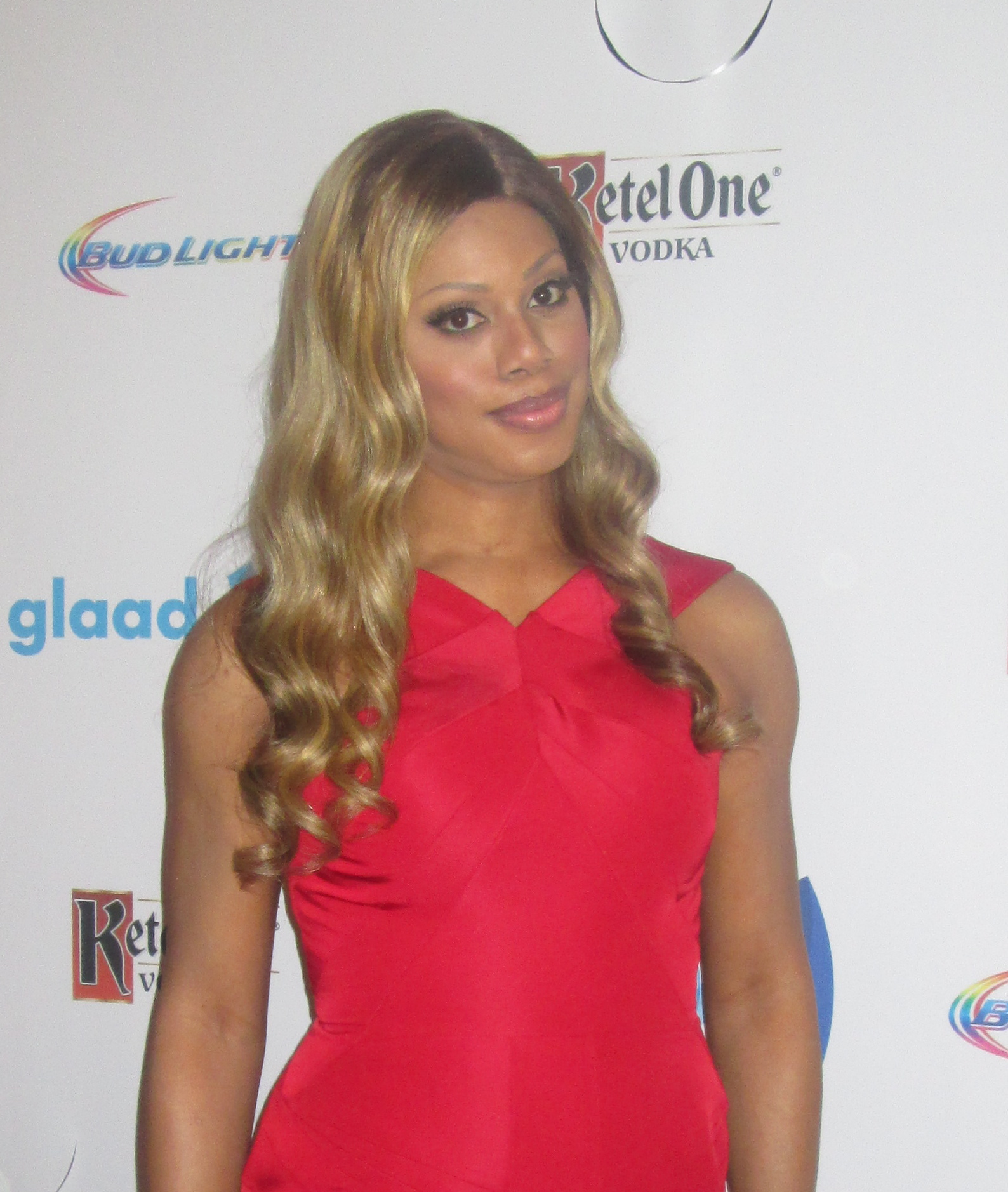 Cox at the 2014 GLAAD Media Awards